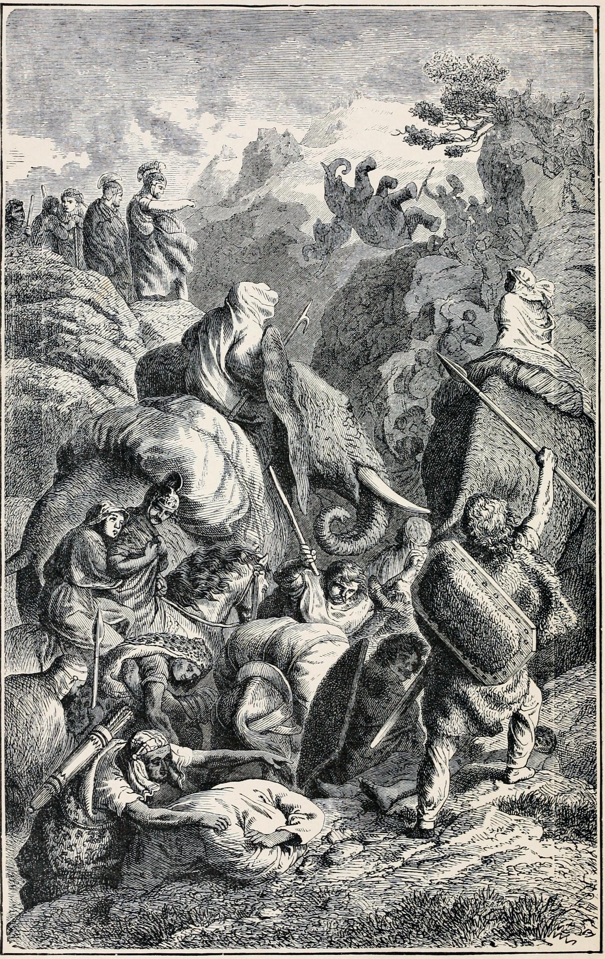 The illustrated history of the world for the English people. From the earliest period to the present time, ancient-mediaeval-modern. With many original high-class engravings Published [1881?-84?] Topics World history SHOW MORE 26 Volume 1 Publisher New York Ward, Lock Pages 928 Possible copyright status NOT_IN_COPYRIGHT Language English Call number AFU-0282 Digitizing sponsor MSN Book contributor Robarts - University of Toronto Collection robarts; toronto Scanfactors 9